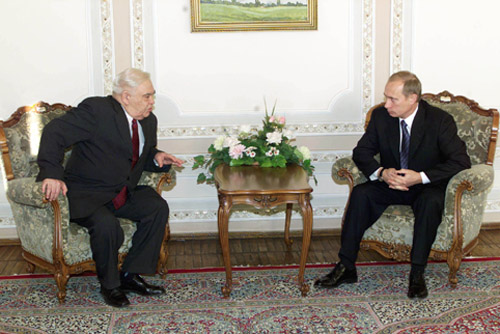 BAKU. President Vladimir Putin and Murtuz Alekserov, Speaker of the Azerbaijani Parliament.